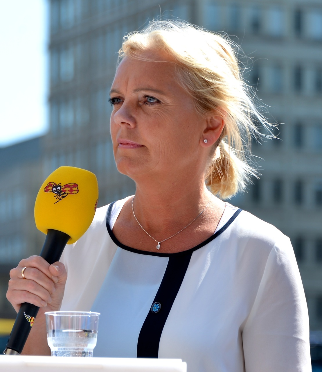 Sweden Democrat candidate to the European Parliament Kristina Winberg interviewed by Expressen at Sergels torg in Stockholm on May 24, 2014.